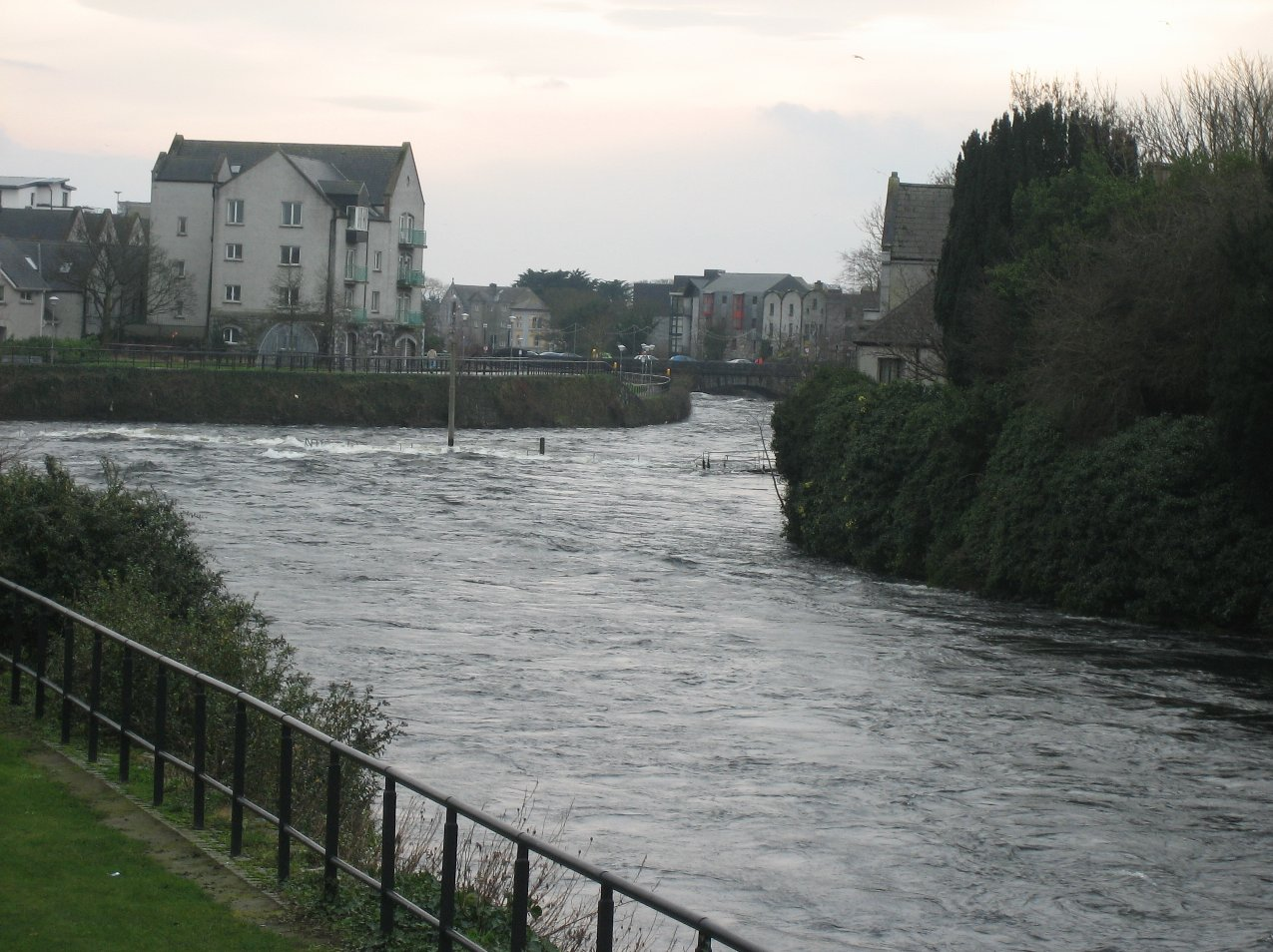 The Lower Corrib - looking south from the Salmon Weir Bridge towards O'Brien's bridge